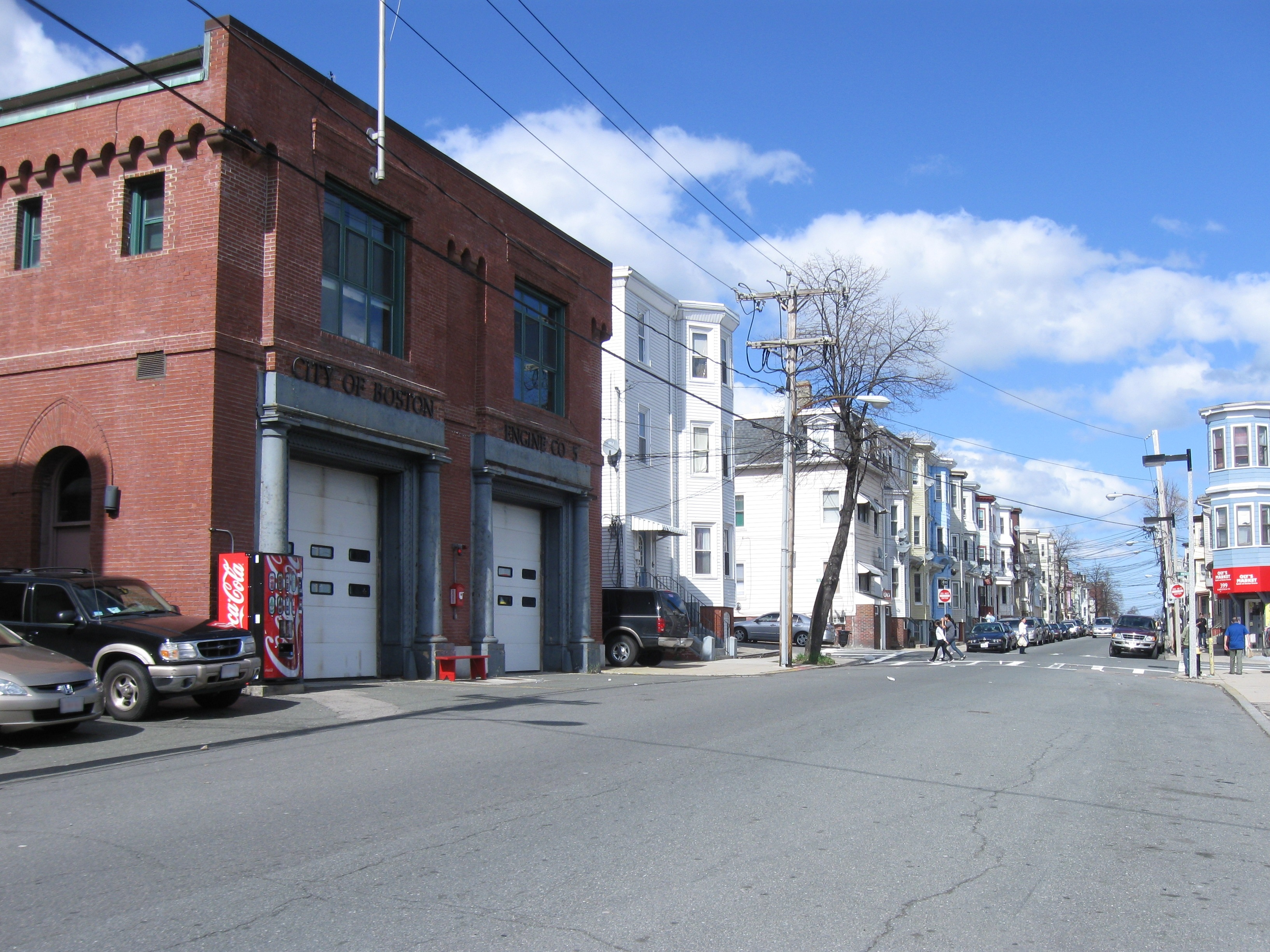 Boston Fire Department, Engine 5 Firehouse (District 1 Chief) --- 360 Saratoga Street, East Boston 02128